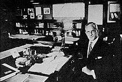 Clifford Milburn Holland, 1919, from Port Authority Website (